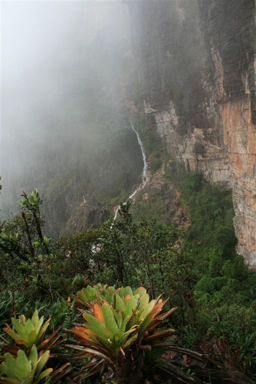 La Rampa, main route for mount Roraima, Venezuela